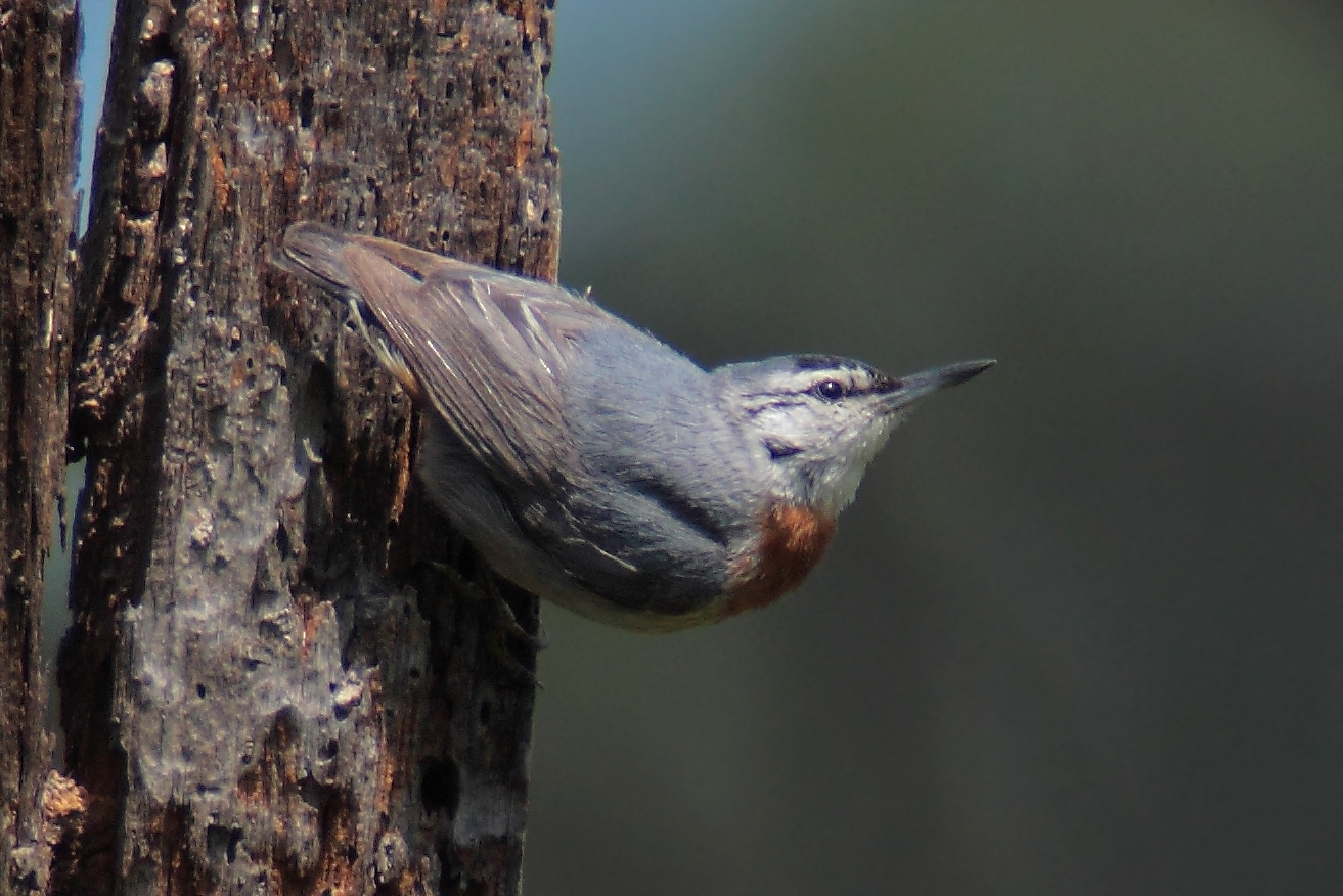 Male Krüper's nuthatch in pine forest to the eadt of the Gulf of Kalloni, Lesvos, Greece